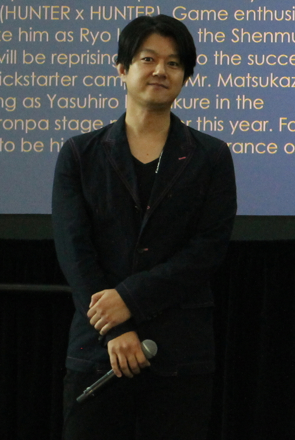 FanimeCon 2016 (Masaya Matsukaze)